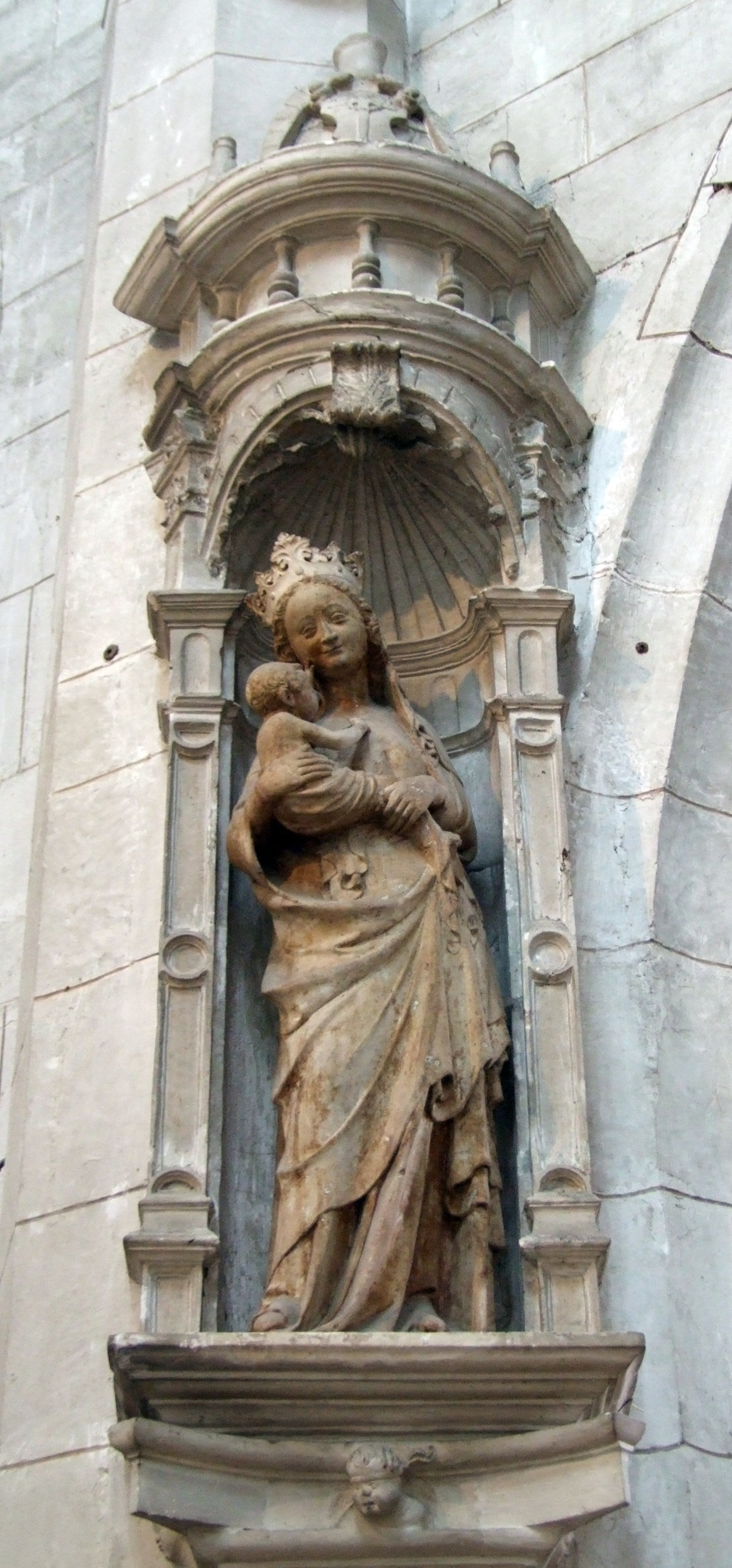 Joigny, Yonne, Burgundy, FRANCE